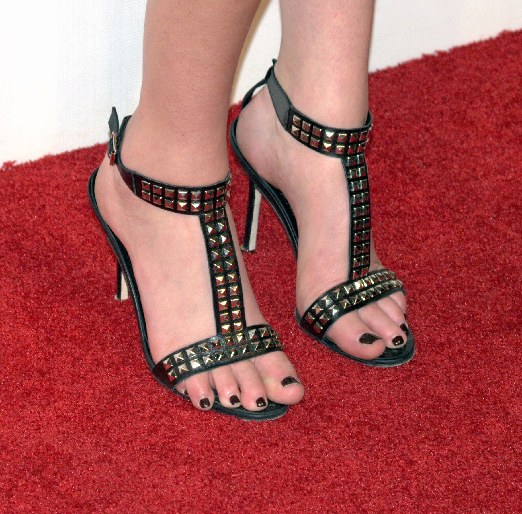 Manolo Blahnik shoes on Whitney Port's feet at the 2009 Tribeca Film Festival.